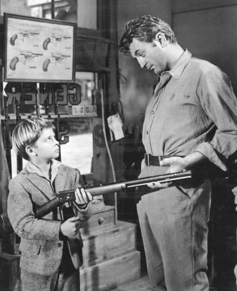 Photo of Tommy Rettig and Robert Mitchum from the 1954 film River of No Return.